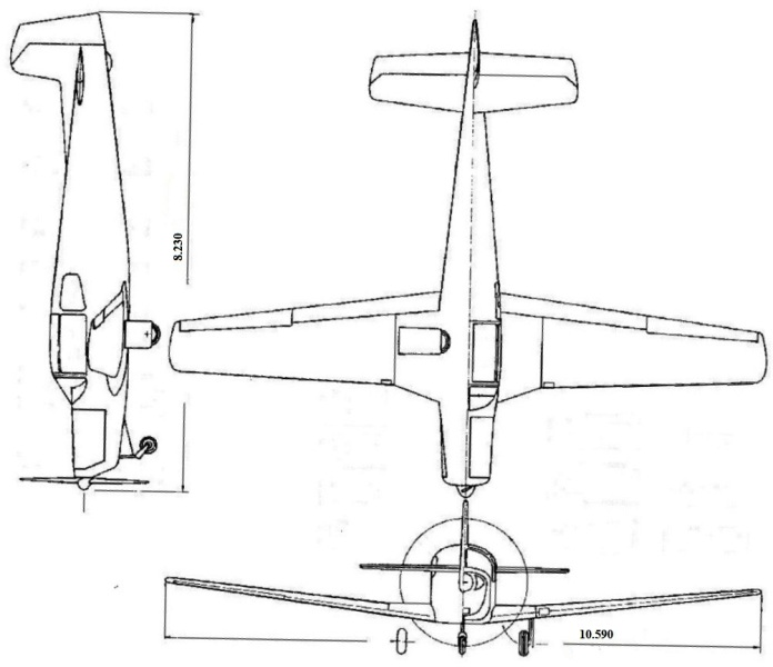 Airplane LIBIS KB-11 Branko Srpski (latinica): Avion Libis KB-11 Branko